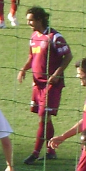 Argentine footballer, CFR Cluj midfielder, Juan Culio